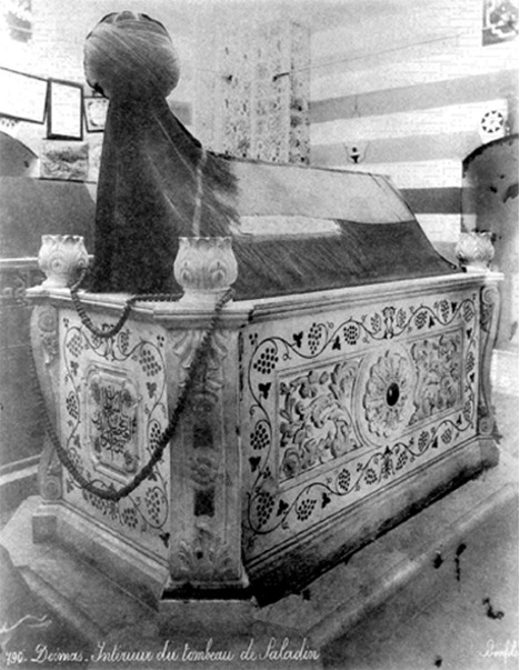 Interior of Saladin's Mausoleum in Damascus.